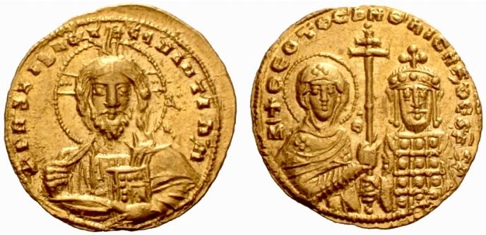 Histamenon NIKEPHOROS II. Phokas 963-969 4,42 g